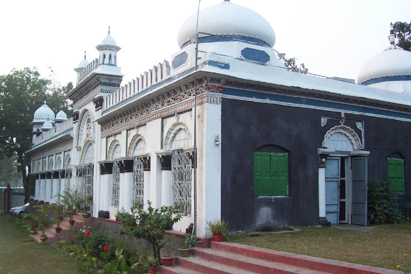 Official building of Nawab estate, Dhonobari, Tangail. The most famous Nawab of this dynasty was Sir Sayed Nawab Ali Chowdhury. He was one of the important founder of Dhaka University.